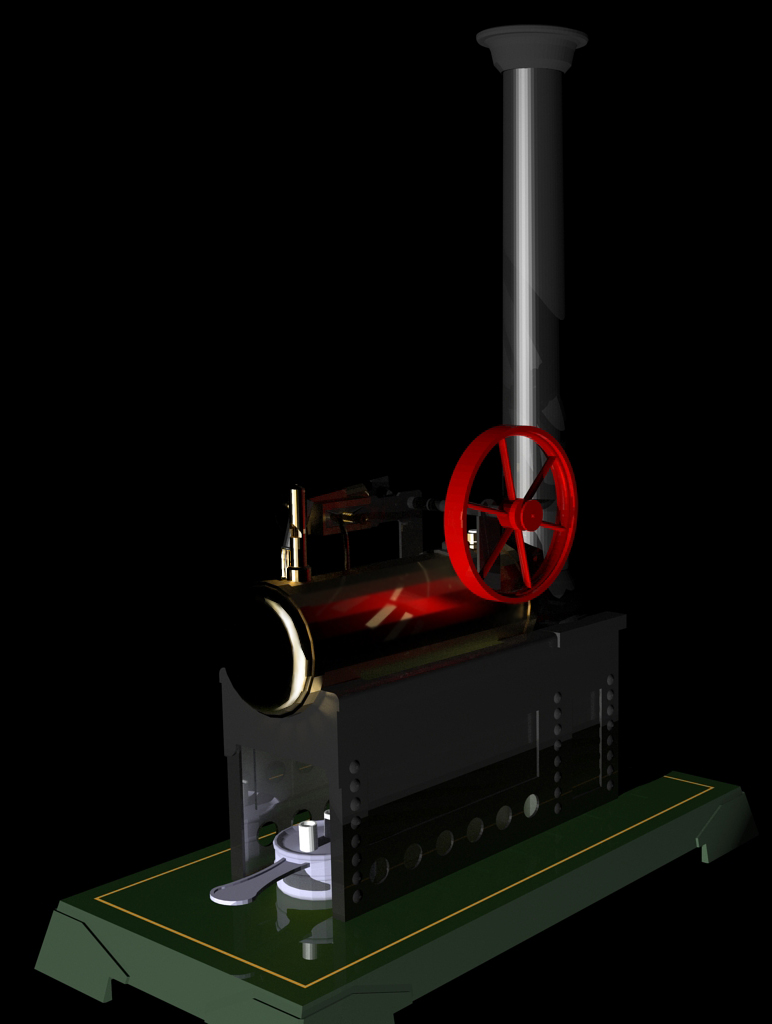 Steam engine by Bing (ca 1925)